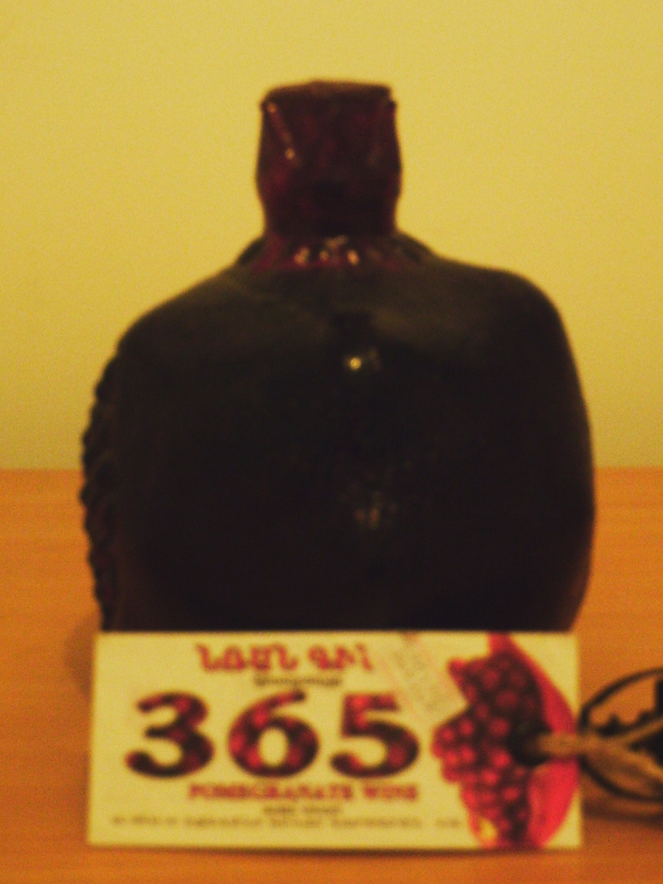 Armenian pomegranate wine